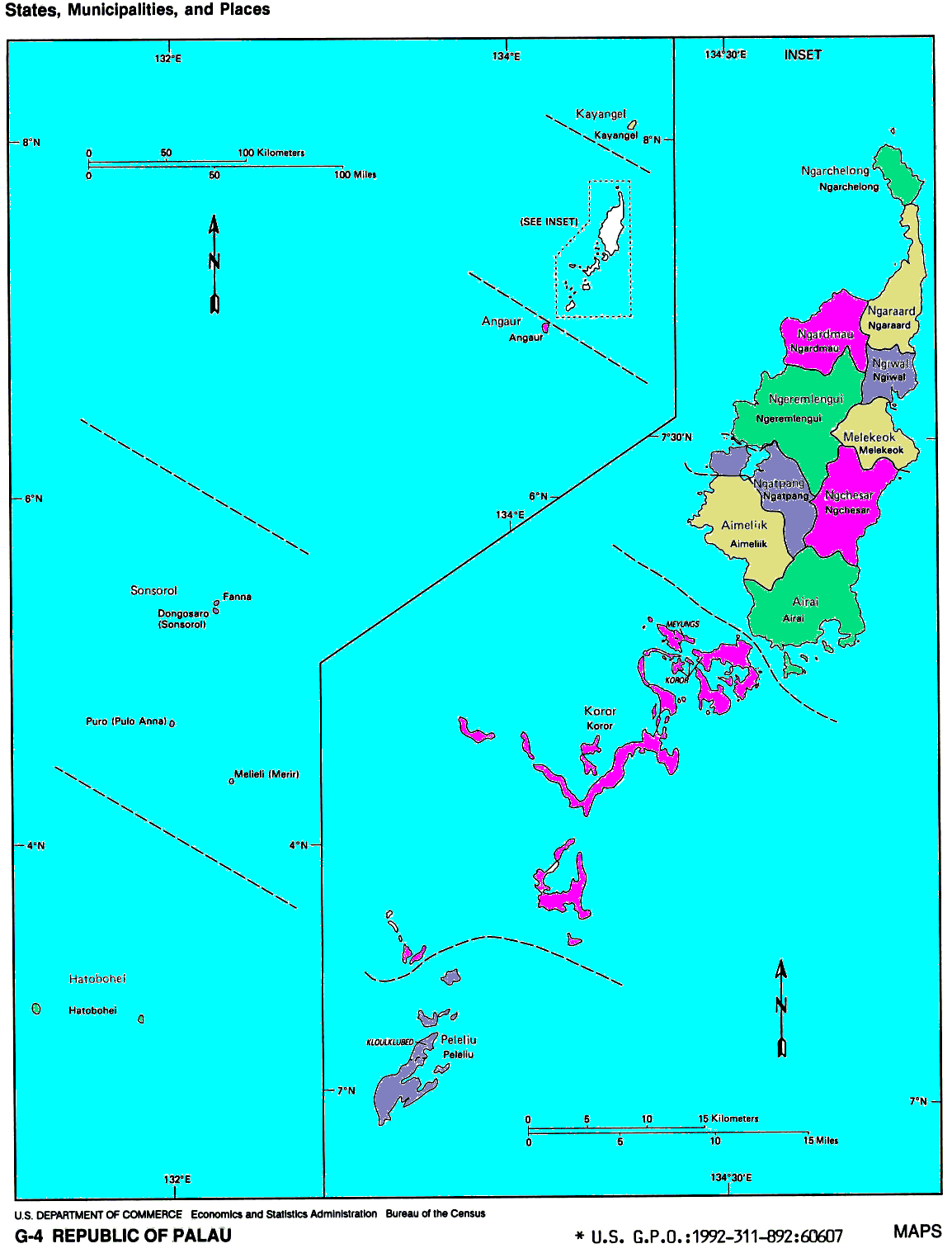 Coloured version of Image:States of Palau.jpg